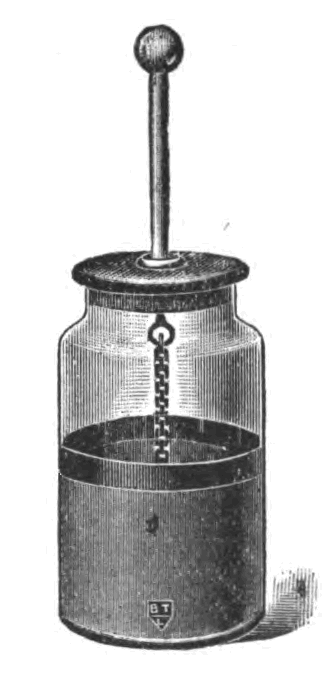 Drawing of a Leyden jar, a piece of antique scientific apparatus used to store electric charge, from a 1919 physics text. Invented by Dutch scientist Pieter von Musschenbroek of Leiden in 1745, it was the first type of capacitor. It consists of a glass jar with tin foil coating the outside and inside surfaces. A brass electrode pierces the stopper, with a hanging chain attached which makes contact with the inner foil, so the jar can be charged. In use, the outside of the jar is connected to ground, and the central electrode is attached to a high voltage electrostatic machine. A large charge of static electricity accumulates on the inner foil, and an opposite polarity charge accumulates on the outer foil. If a wire connected to the outer foil is brought near the central electrode, a spark will jump, discharging the jar. The foil linings stop well short of the mouth of the jar so the charge on the foils can't discharge by arcing through the mouth. The glass was usually shellacked before applying the foil, because bare glass forms a partially conductive hygroscopic coating which tended to discharge the jar.